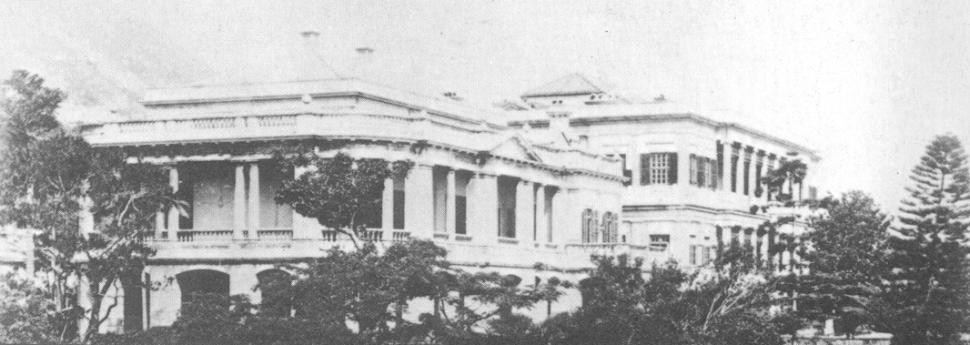 Government House of Hong Kong after 1891